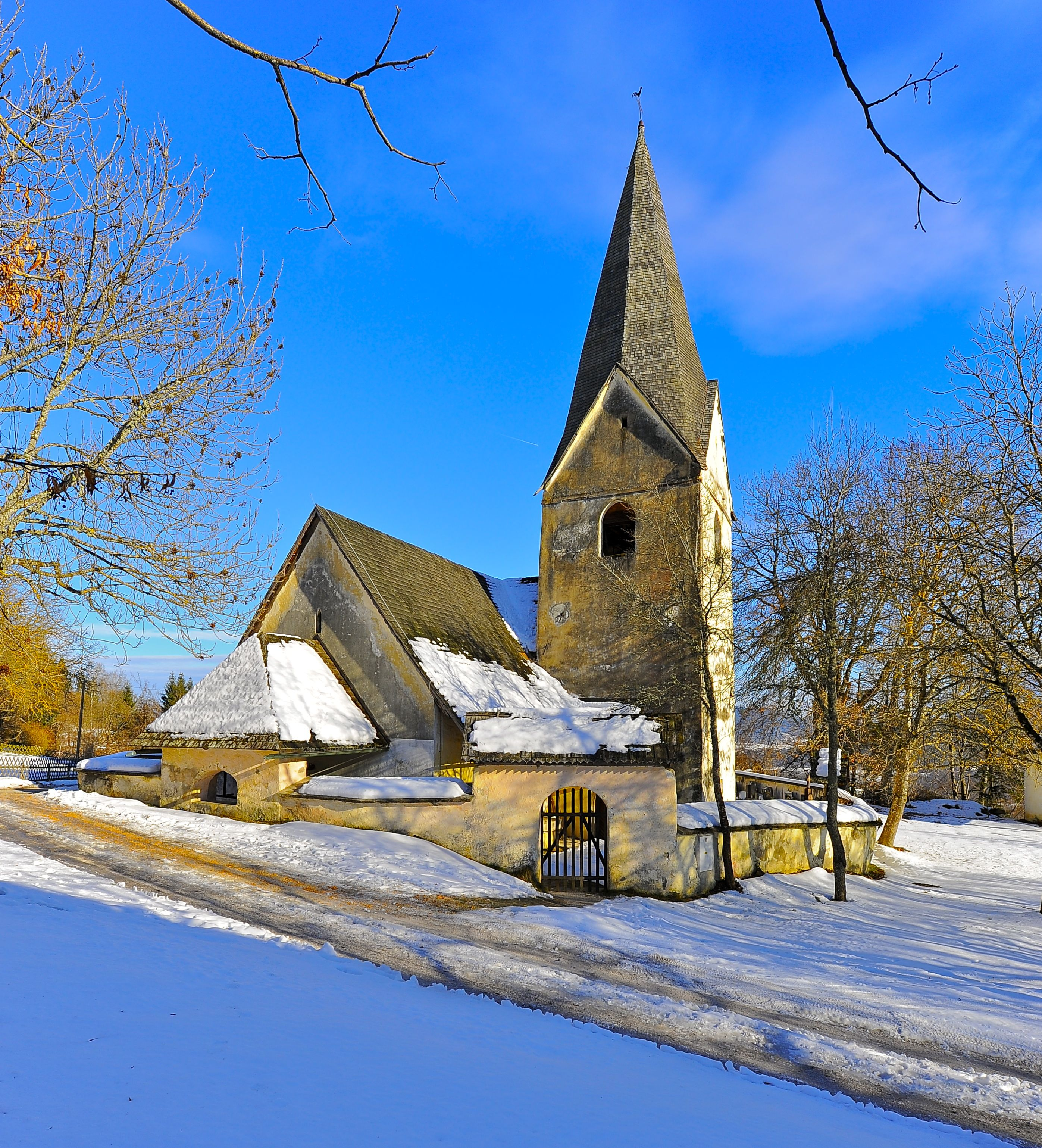 Subsidiary church Saint Anna at Saager, market town Grafenstein, district Klagenfurt Land, Carinthia, Austria, European Union